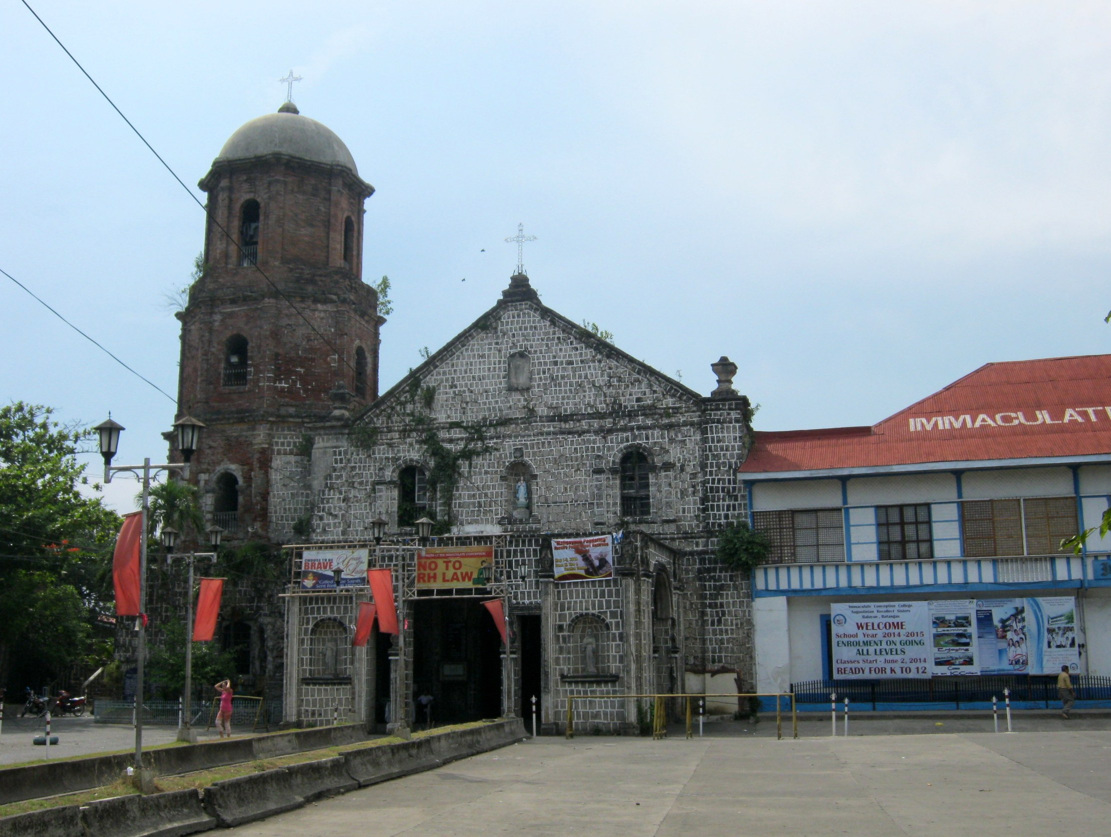 Facade of Balayan Church seen from the church patio